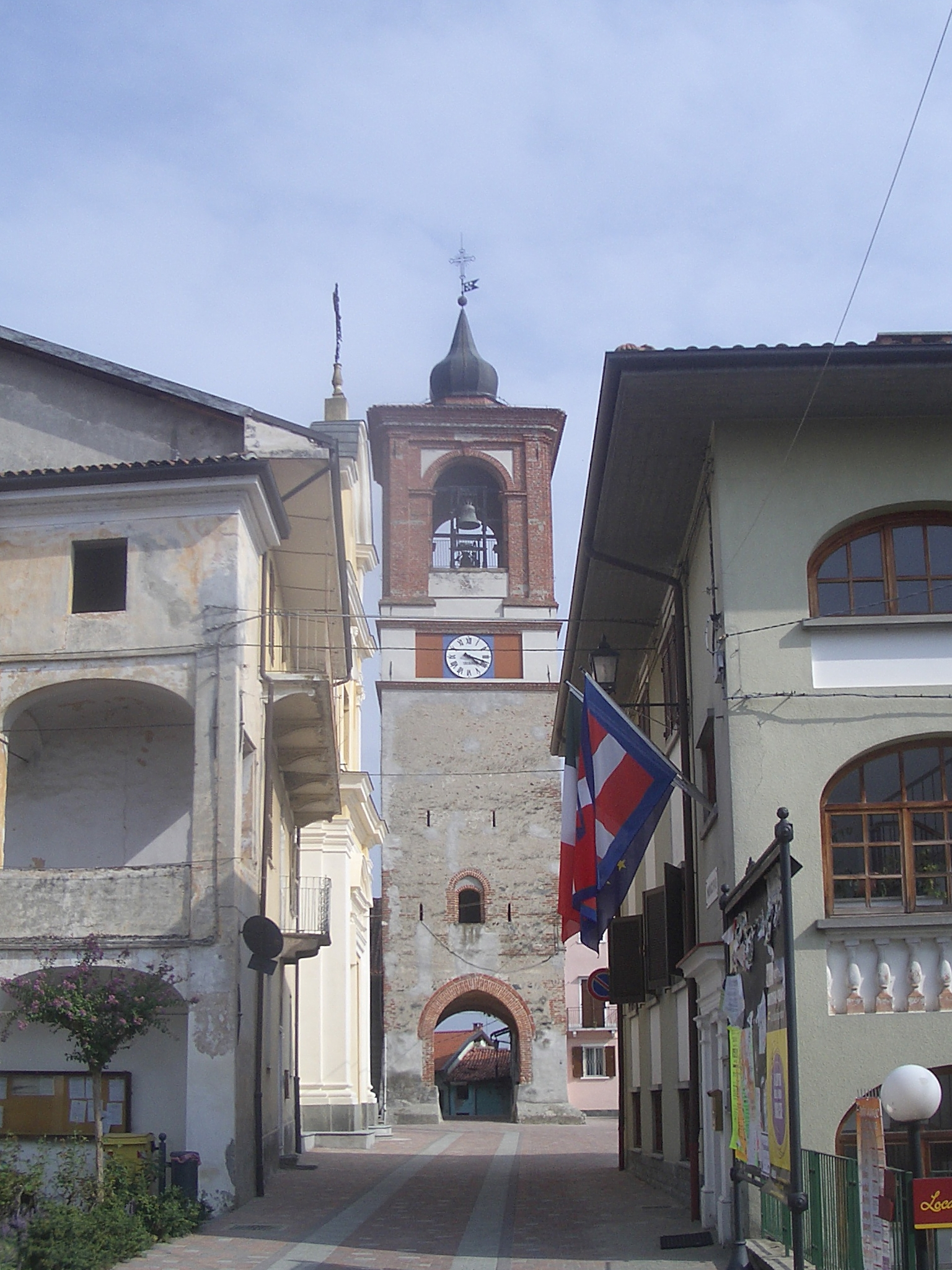 Palazzo Canavese, the clock-tower